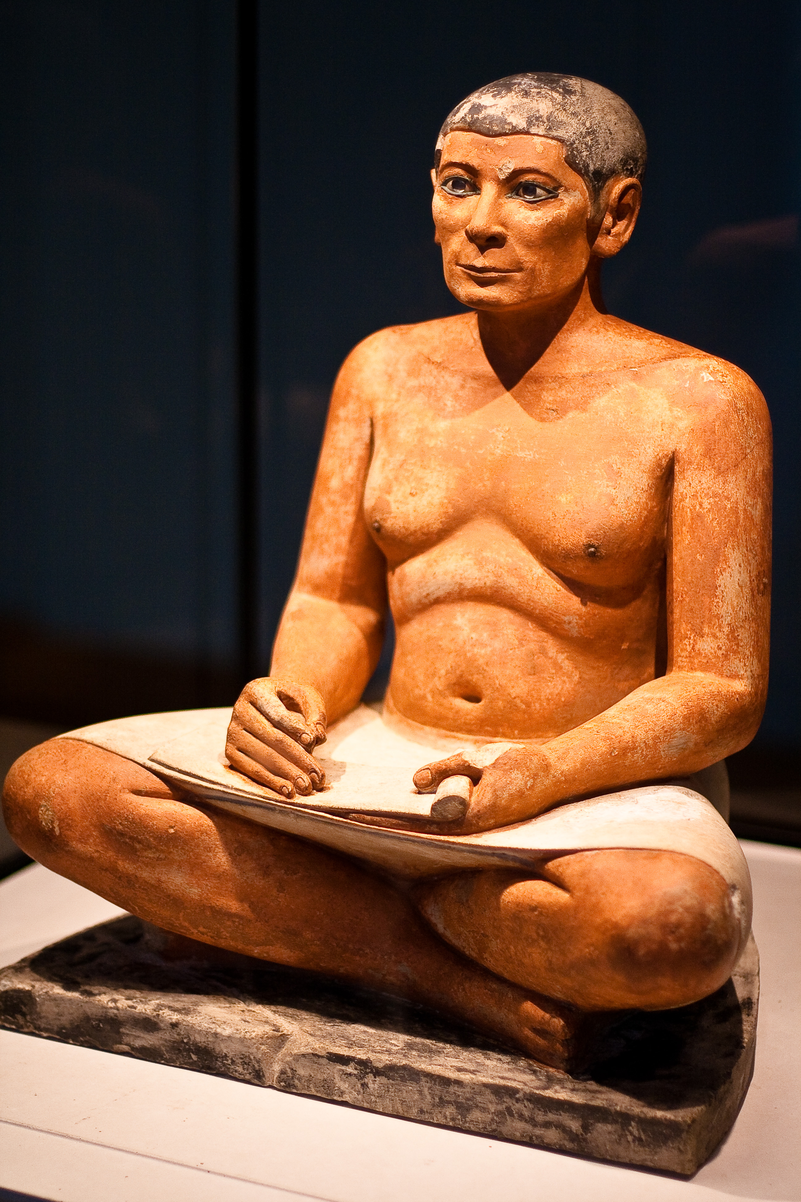 Seated Scribe at Louvre Museum, Paris, France.